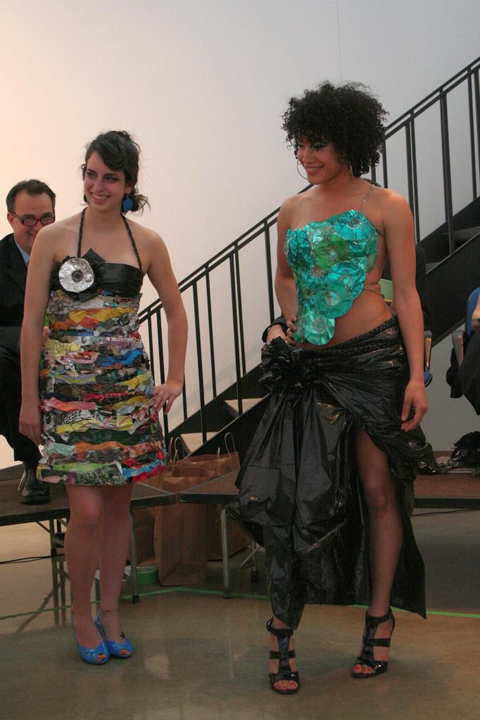 From the first annual Fashion Trashion show put on by the Studio Art program at University of Minnesota, Morris. The students in the beginning art classes designed and constructed outfits out of trash and recycled materials.